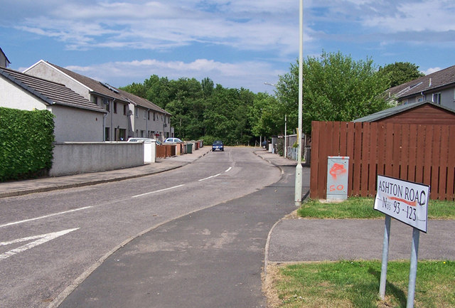 Ashton Road, Inverness One of two cul-de-sacs in Ashton Road.